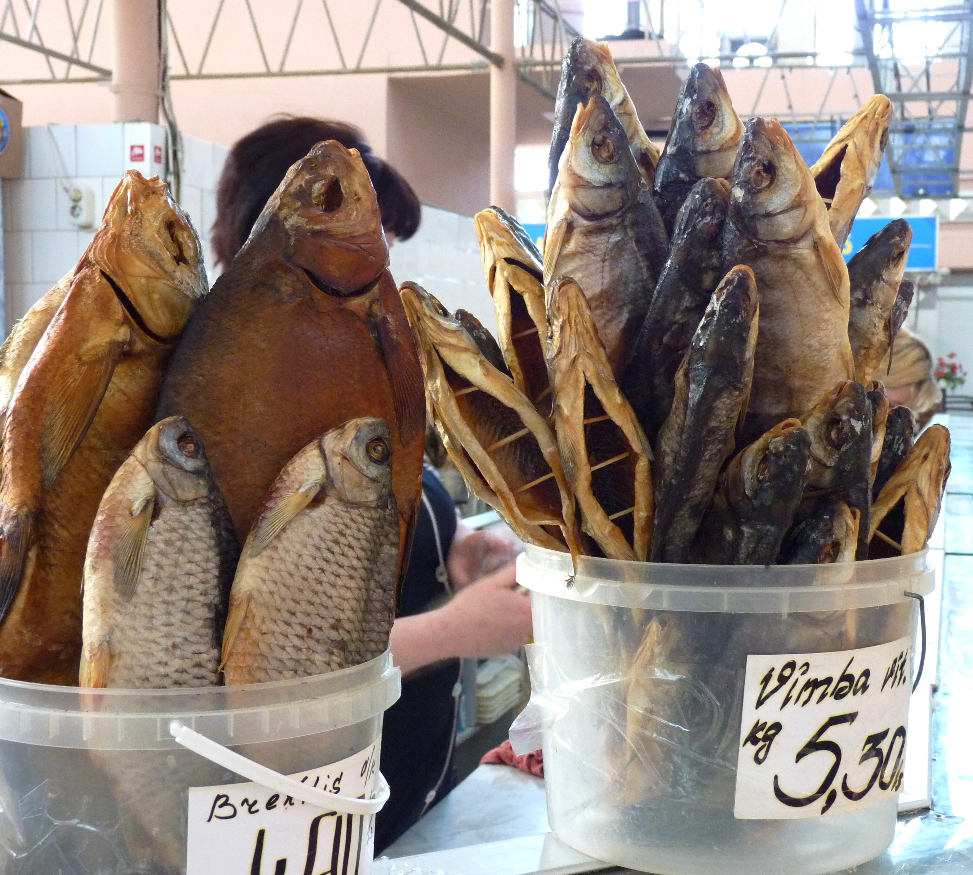 Smoked fish in Riga main market